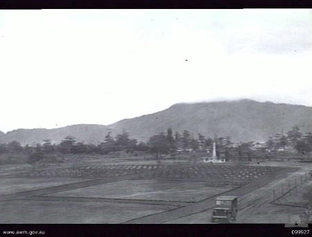 RABAUL, NEW BRITAIN, 1946-03-16. A PANORAMIC VIEW OF THE CHINESE CEMETERY. OF THE 653 CHINESE WHO DIED WHILST CAPTIVES OF THE JAPANESE, 259 WERE RE-INTERRED IN THIS CEMETERY. IT CONTAINS VACANT LOTS FOR BODIES YET TO BE FOUND IN THE HILLS. THE NEAT GROUNDS, ROWS OF MARKED GRAVES AND AN INSCRIBED MEMORIAL MONUMENT WERE DEDICATED IN A SPECIAL CEREMONY ATTENDED BY AUSTRALIAN ARMY, CHINESE ARMY AND CHINESE COMMUNITY.